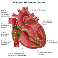 Sistema de conducción del corazón